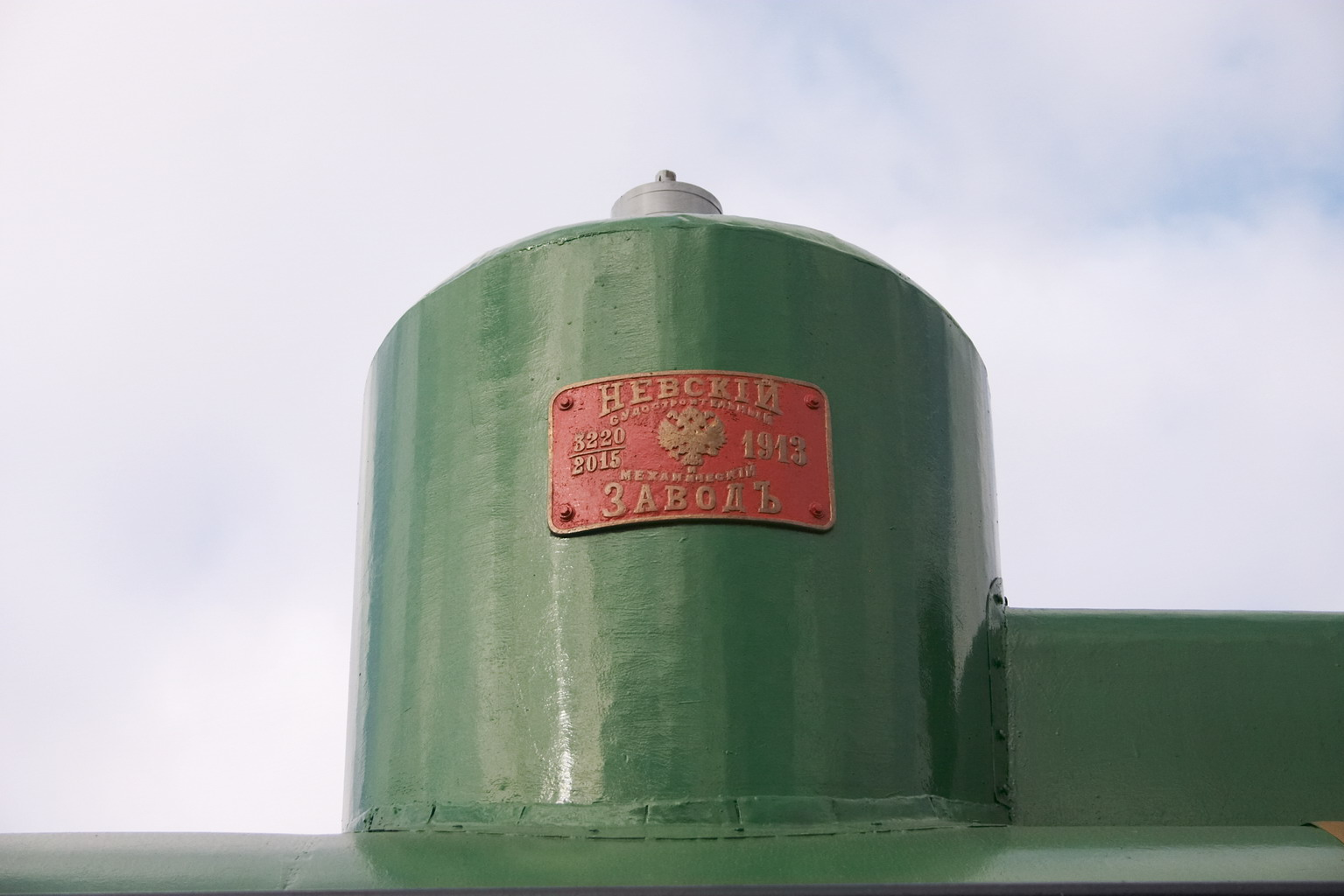 Steam locomotive S, steam dome